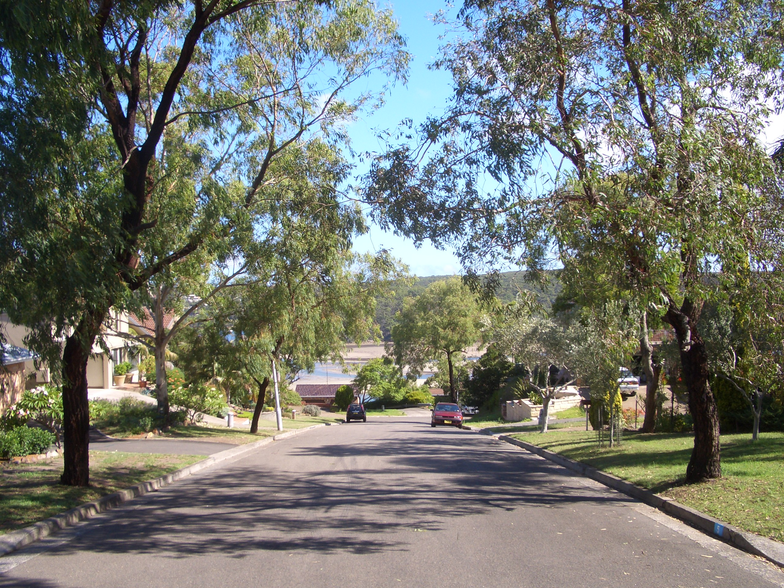 Sandbar Place, Port_Hacking